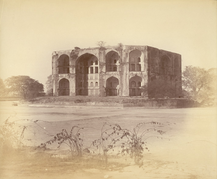 Fariabagh, Ahmednagar, Maharashtra.